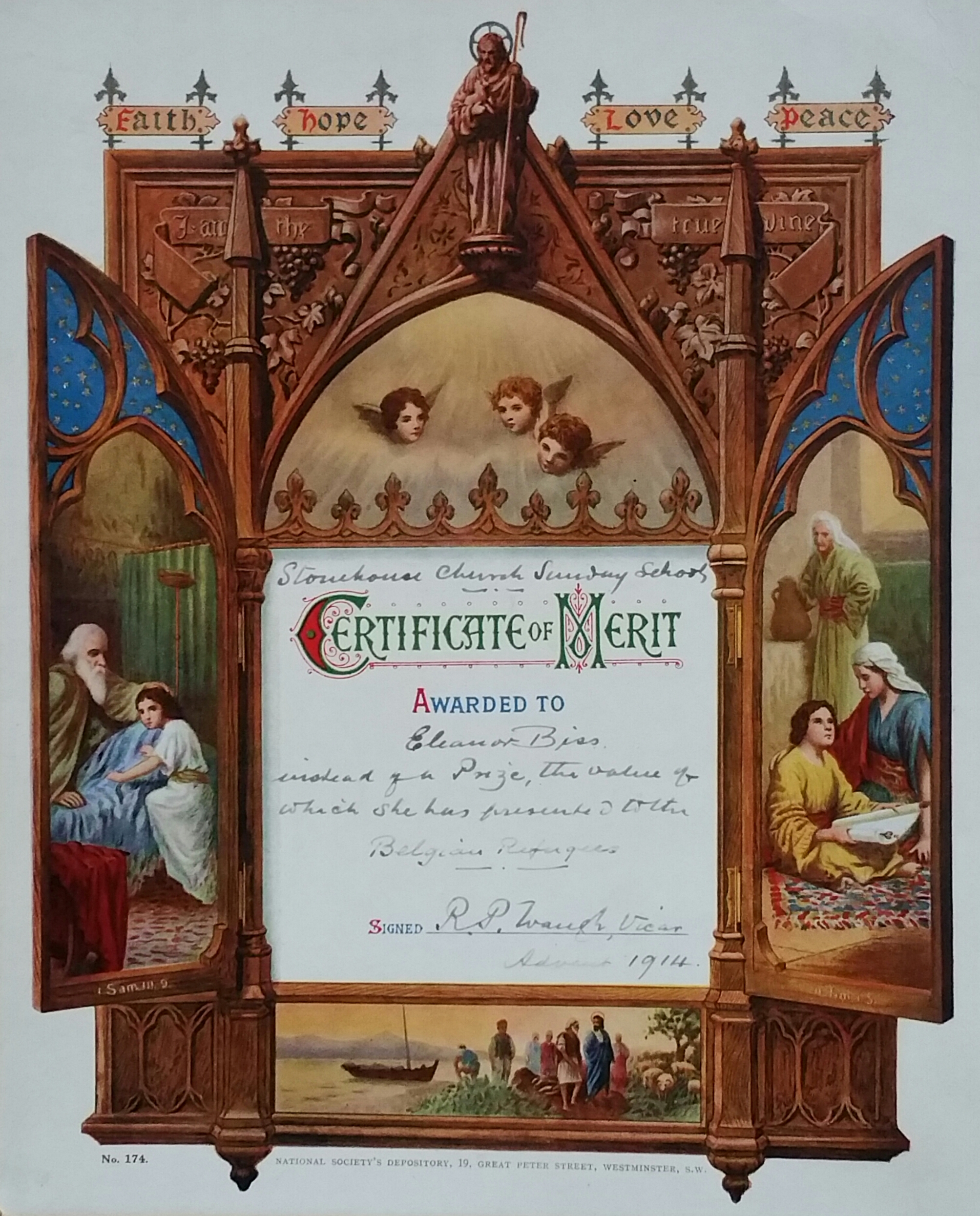 Stonehouse church sunday school certificate of merit awarded to Eleanor Biss instead of a prize, the value of which she has presented to the Belgian refugees 1914. Eleanor Biss was the second wife of Hugh Pembroke Vowles